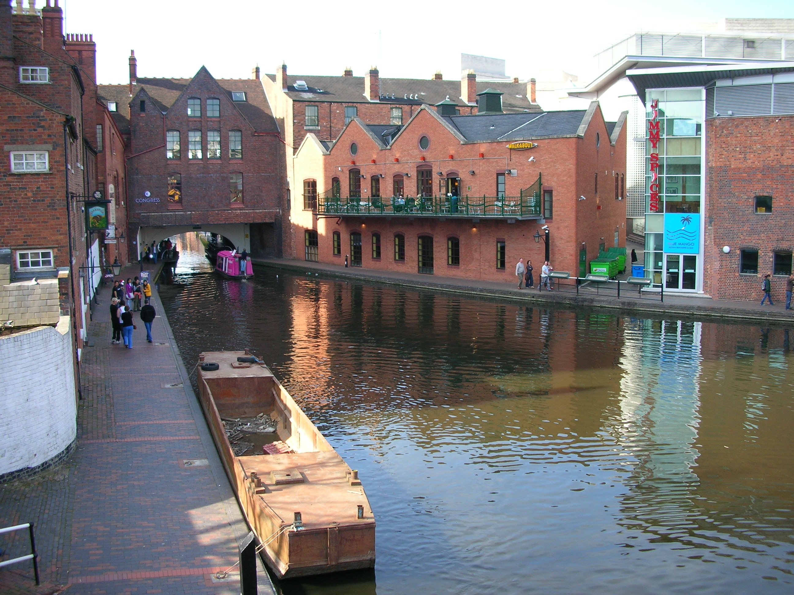 Gas Street Basin, central Birmingham, England. The start of the BCN Main Line. View looking towards Brindleyplace. The tunnel passes under an 1875 Martin & Chamberlain grade II listed building and then under Broad Street. Photographed by me 6 April 2007. Oosoom 23:08, 9 April 2007 (UTC)